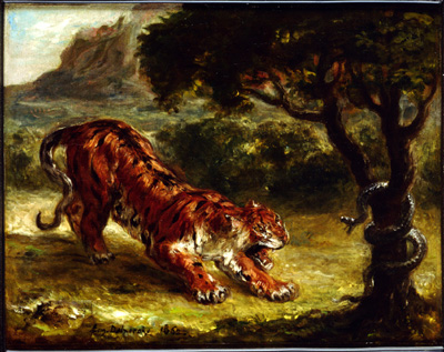 Tiger and Snake. Oil on canvas, 13 x 16 1/4 in.